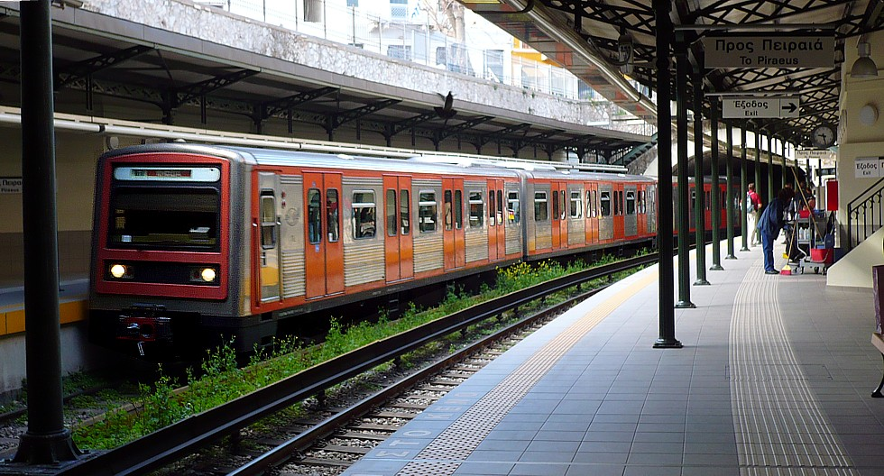 The picture depicts the Monastiraki Urban Train Station in Athens.